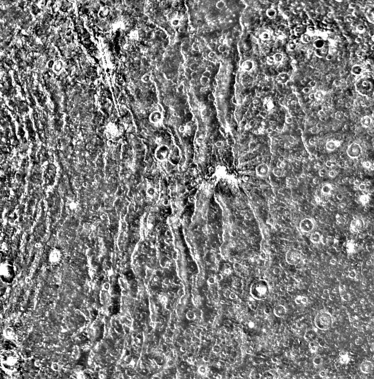 The concentric rings (troughs) of the Valhalla multi-ring structure (Voyager 1).